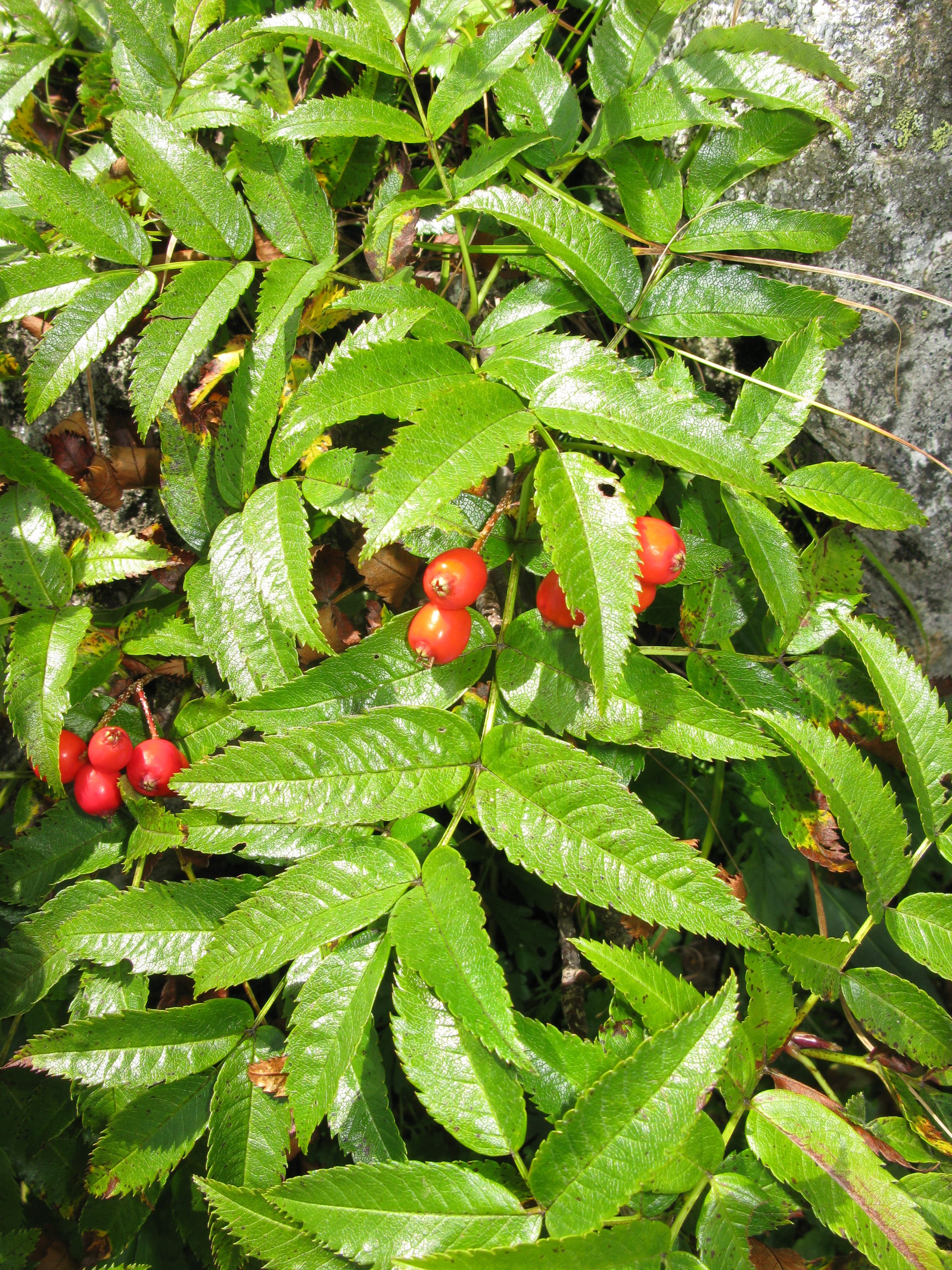 Sorbus sambucifolia, Mount Iide, Fukushima pref., Japan